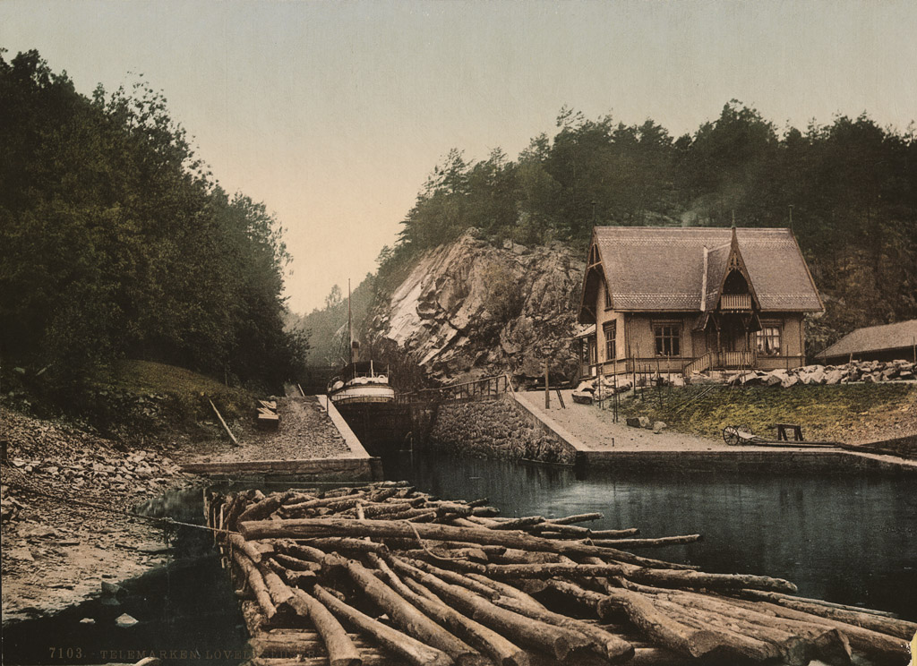 Tittel / Title: 7103. Telemarken. Löveid sluser Dato / Date: ca 1890-1900 Fotograf / Photographer: ukjent / unknown Sted / Place: Telemark, Løveid Eier / Owner Institution: Nasjonalbiblioteket / National Library of Norway Lenke / Link: Bildesignatur / Image Number: bldsa_FA0683